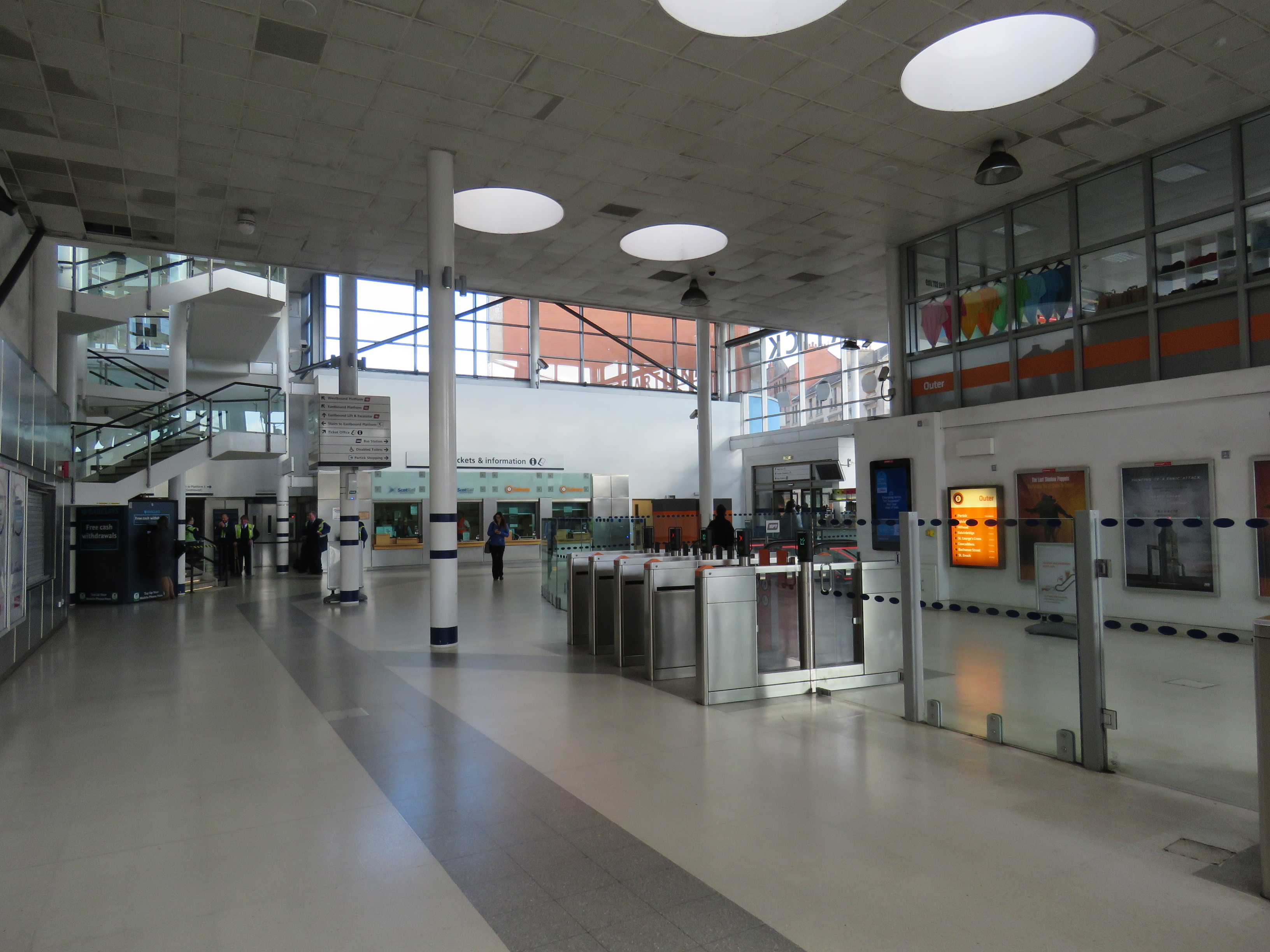 Concourse of Partick railway and subway station, Glasgow, Scotland